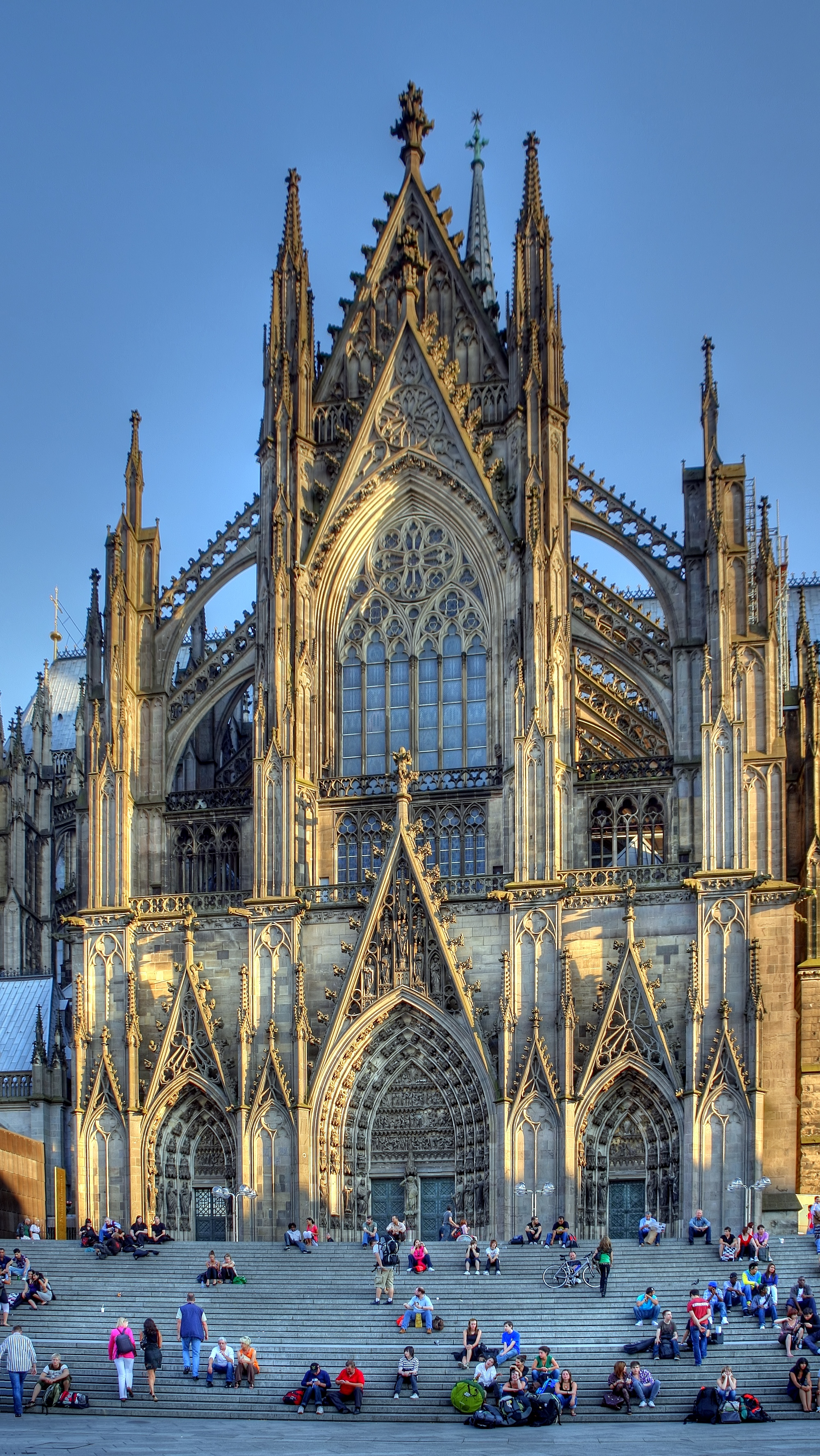 Northern porch of Cologne Cathedral